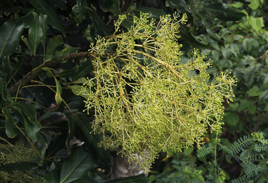 Close-up of an inflorescence of a False cabbage tree in a gwasha forest on the northern slopes of Monte Dombe, Chimanimani National Reserve, Mozambique